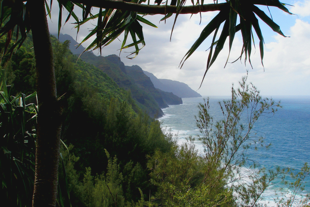 Kauai, Hawaii, USA, Kalalau trail, Na Pali coast